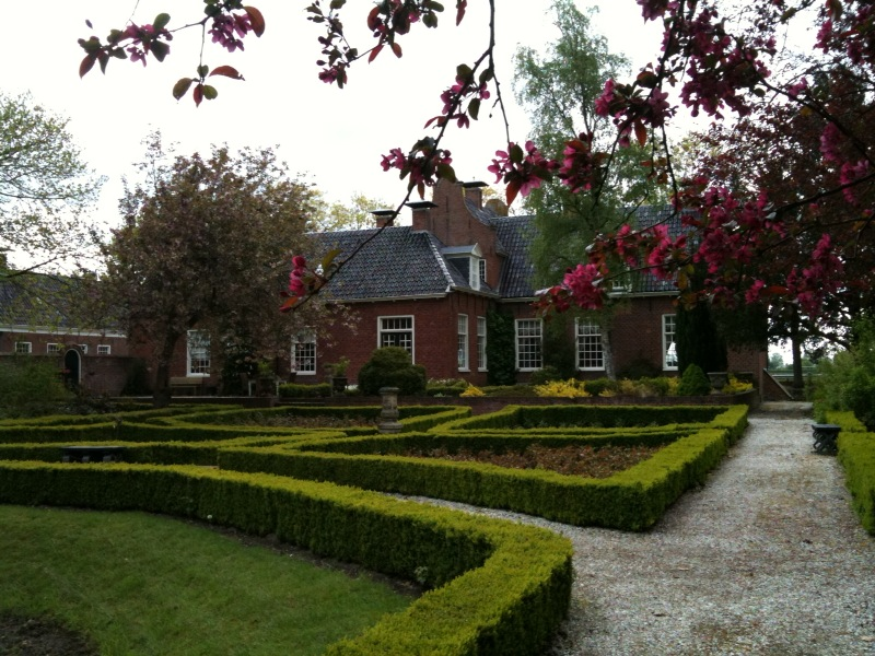 Borg Welgelegen, Sappemeer